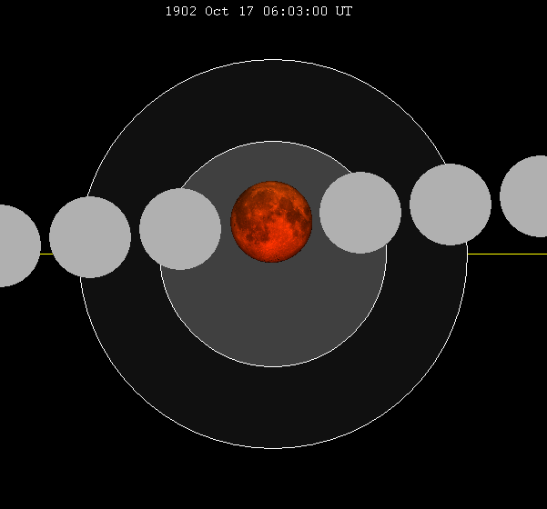 April 1902 lunar eclipse chart of moon's lunar eclipse path through the earth's shadow. thumb